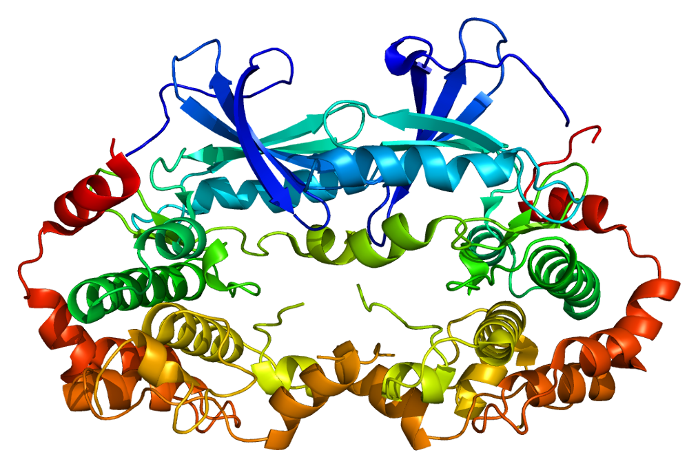 Structure of the MAP2K2 protein. Based on PyMOL rendering of PDB 1s9i.